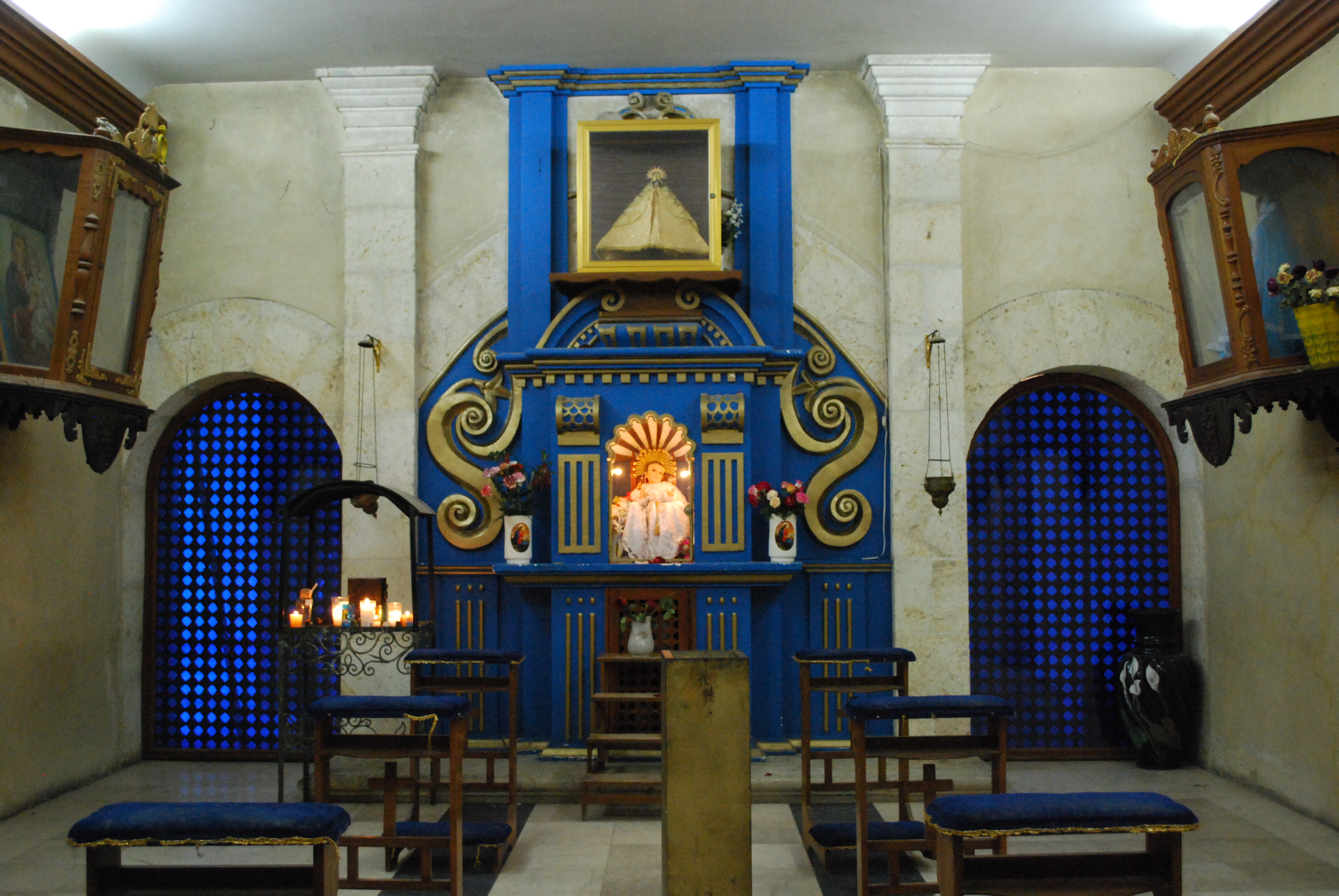 Altar to the Virgin of Ocotlan in the Temple of Santo Domingo de Guzman in Ocotlan de Morelos, Oaxaca, Mexico